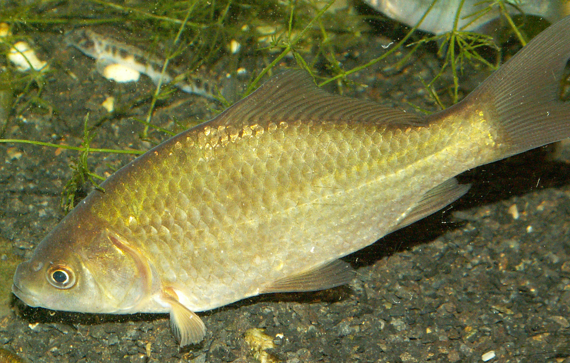 Carassius gibelio Dutch specimen from the Betuwe